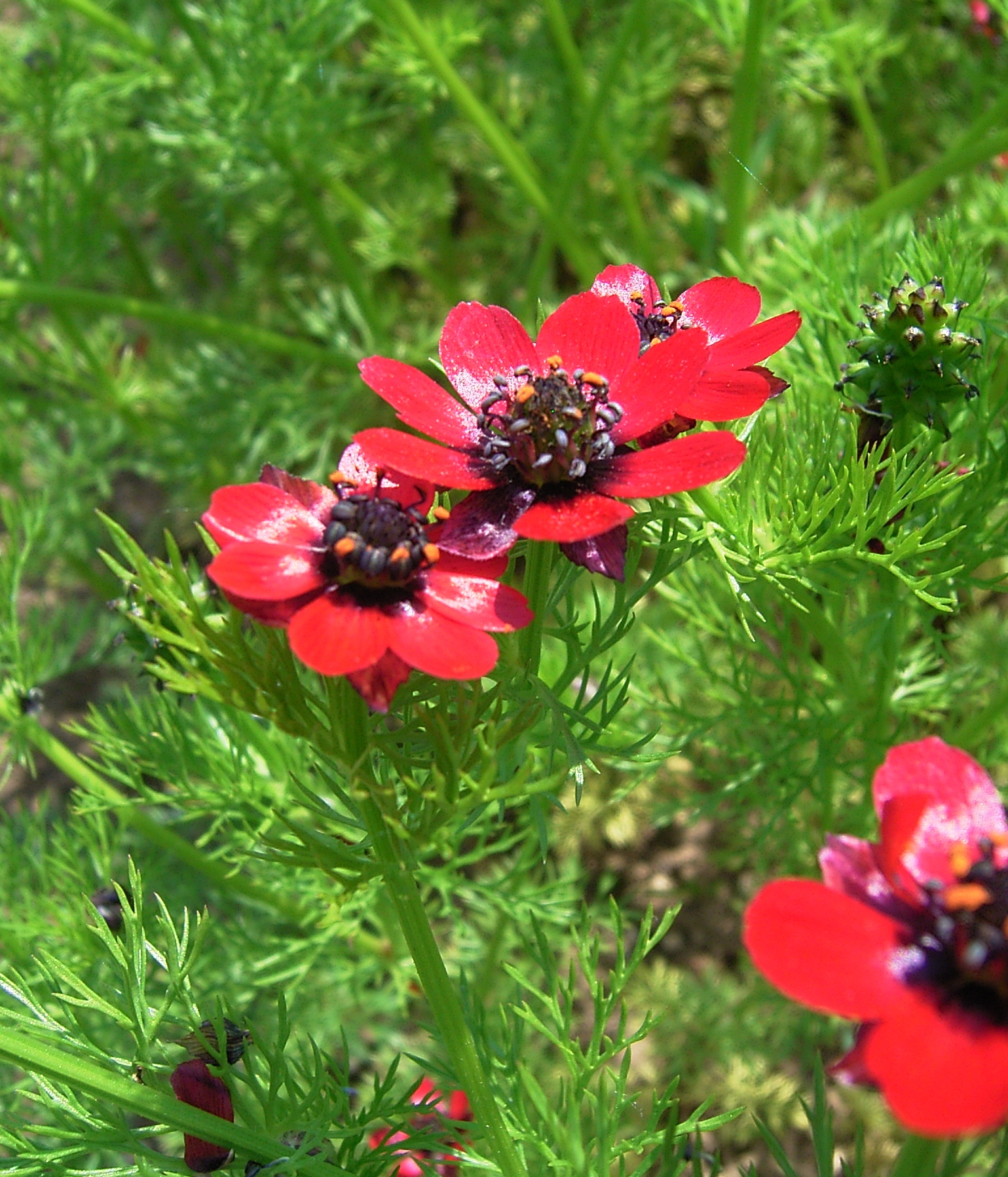 Adonis annua